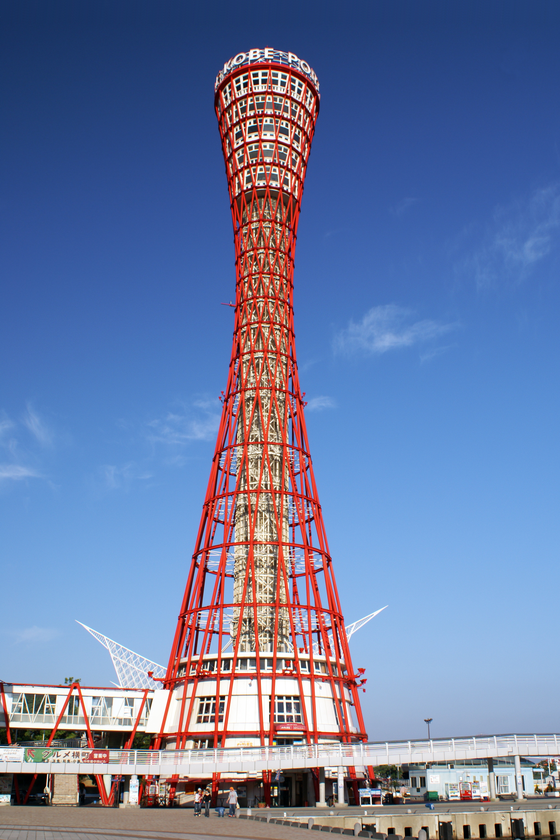 Kobe Port Tower in the Kobe harbor ( Kobe, Hyogo prefecture, Japan)